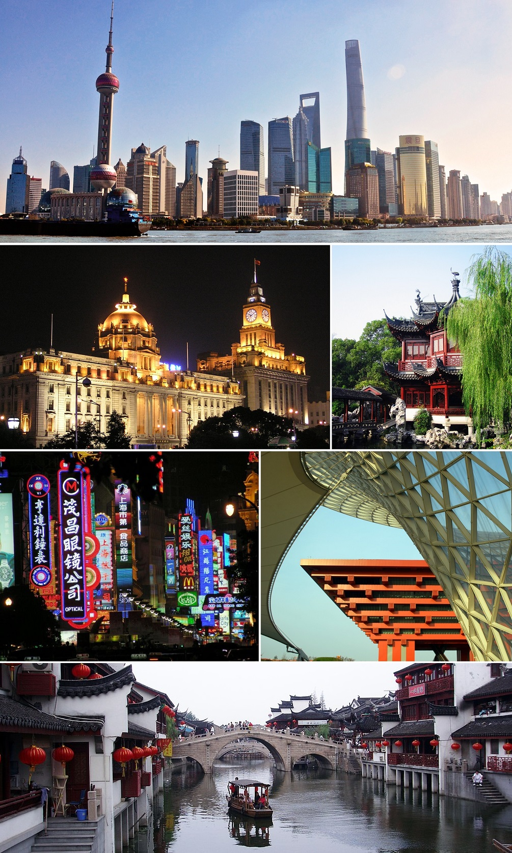 Montage of various Shanghai images